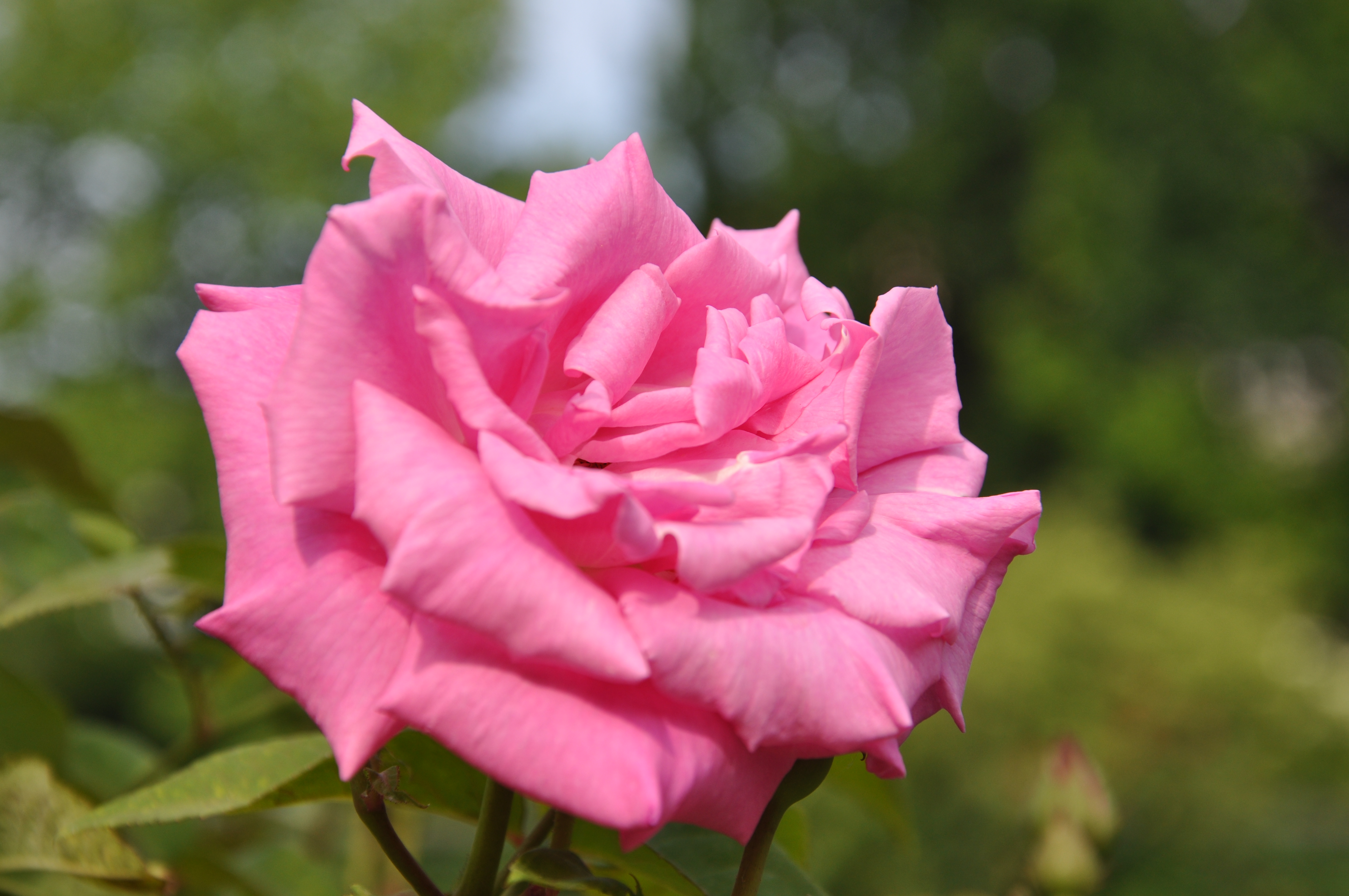 Rose named Zéphirine Drouhin (KL Bizot 1968) in Duftrosengarten for blind people in Rapperswil (SG)